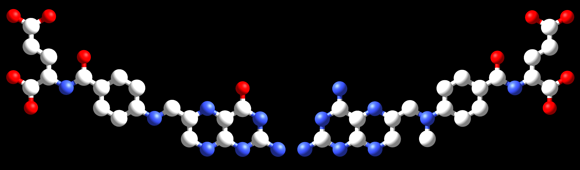 Folic acid (left) compared to methotrexate (right).